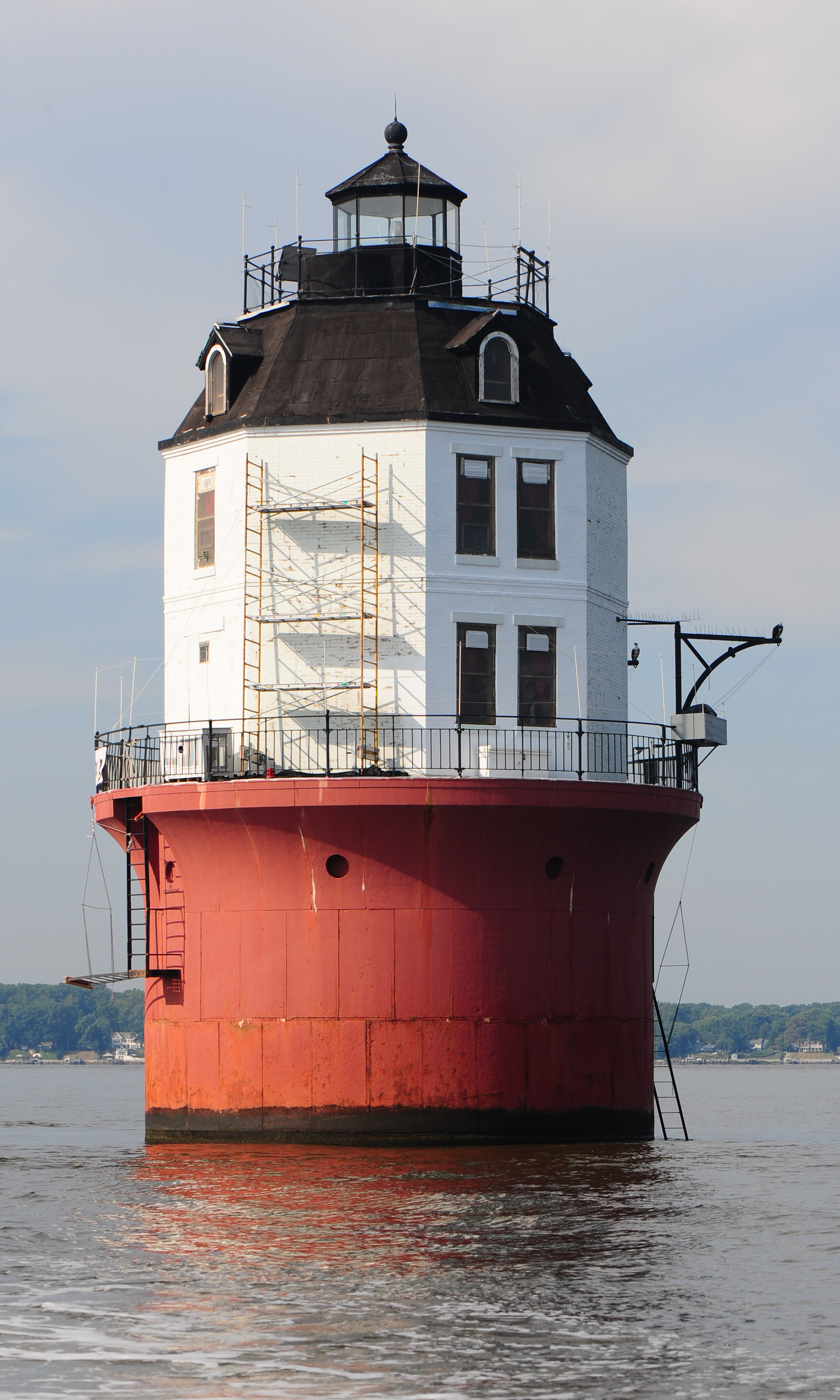 Baltimore Light, in the Chesapeake Bay, Maryland, USA.